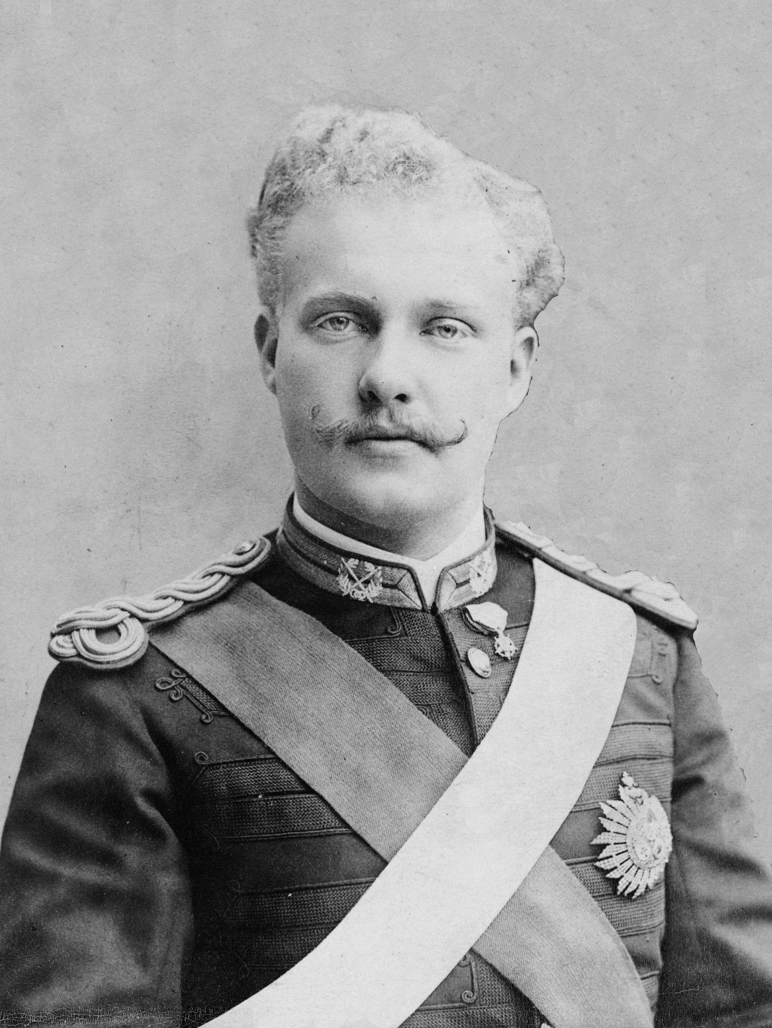 Carlos I, King of Portugal, half-length portrait, facing slightly left.